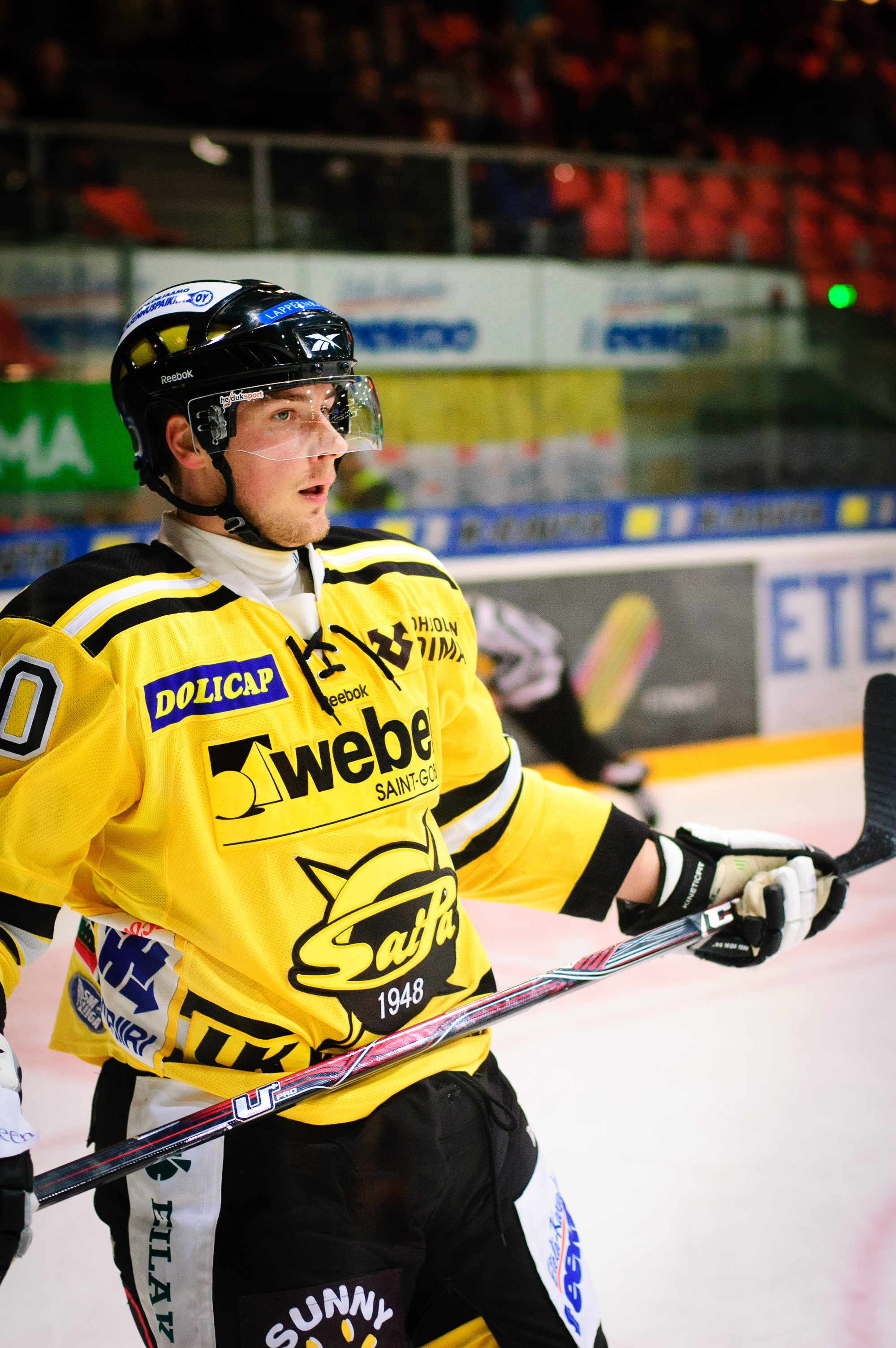 Finnish ice hockey player Tero Koskiranta playing for SaiPa Lappeenranta against HPK Hämeenlinna in the Finnish SM-liiga.